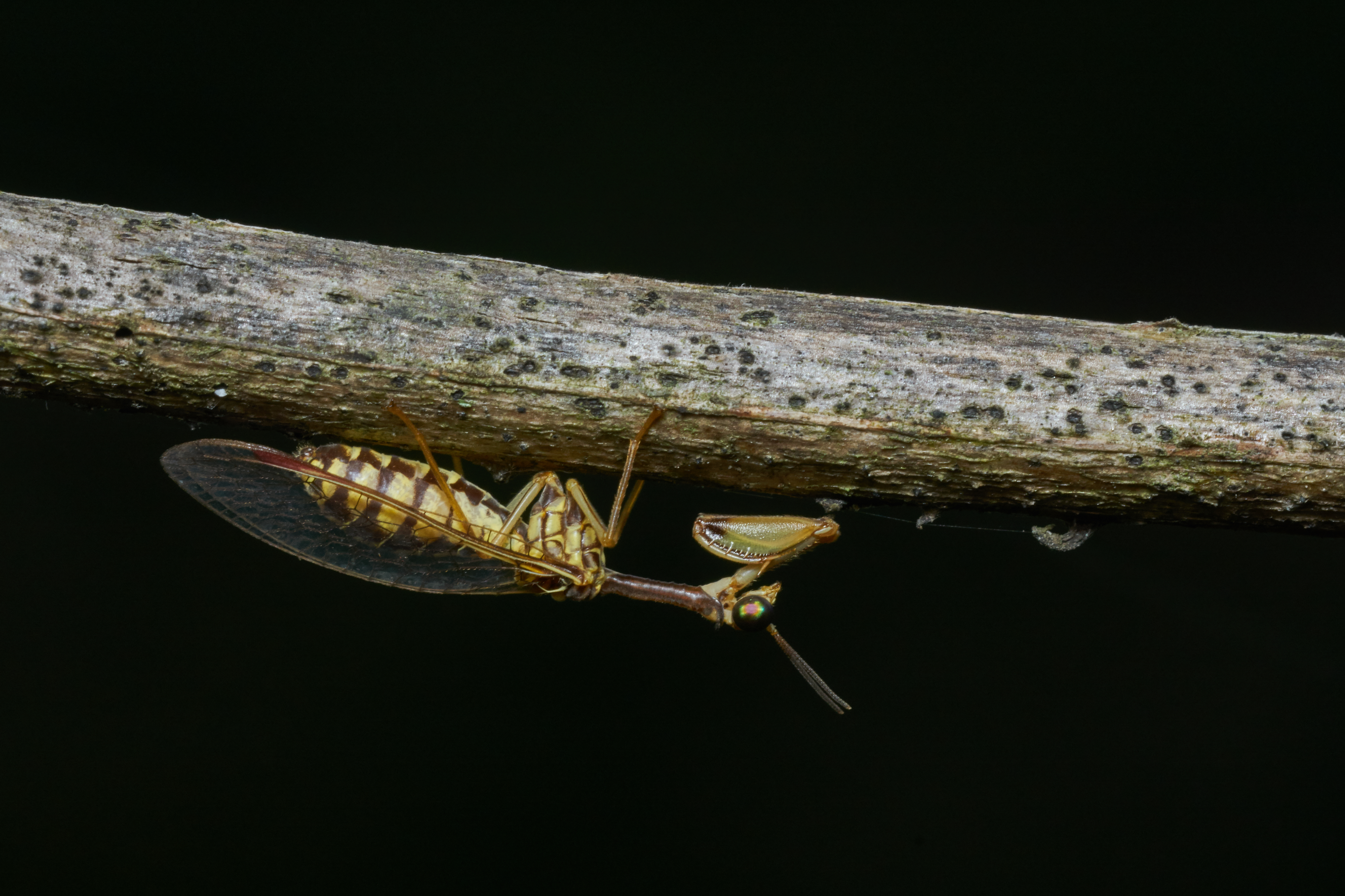 Mantispidae, Mantis-flies, is a family of small to moderate-sized insects in the order Neuroptera. There are many genera with around 400 species worldwide, especially in the tropics and subtropics. This can be a Sagittalata or Mantispa species female as a revision is going on. (ID: Neuro-dynamics)